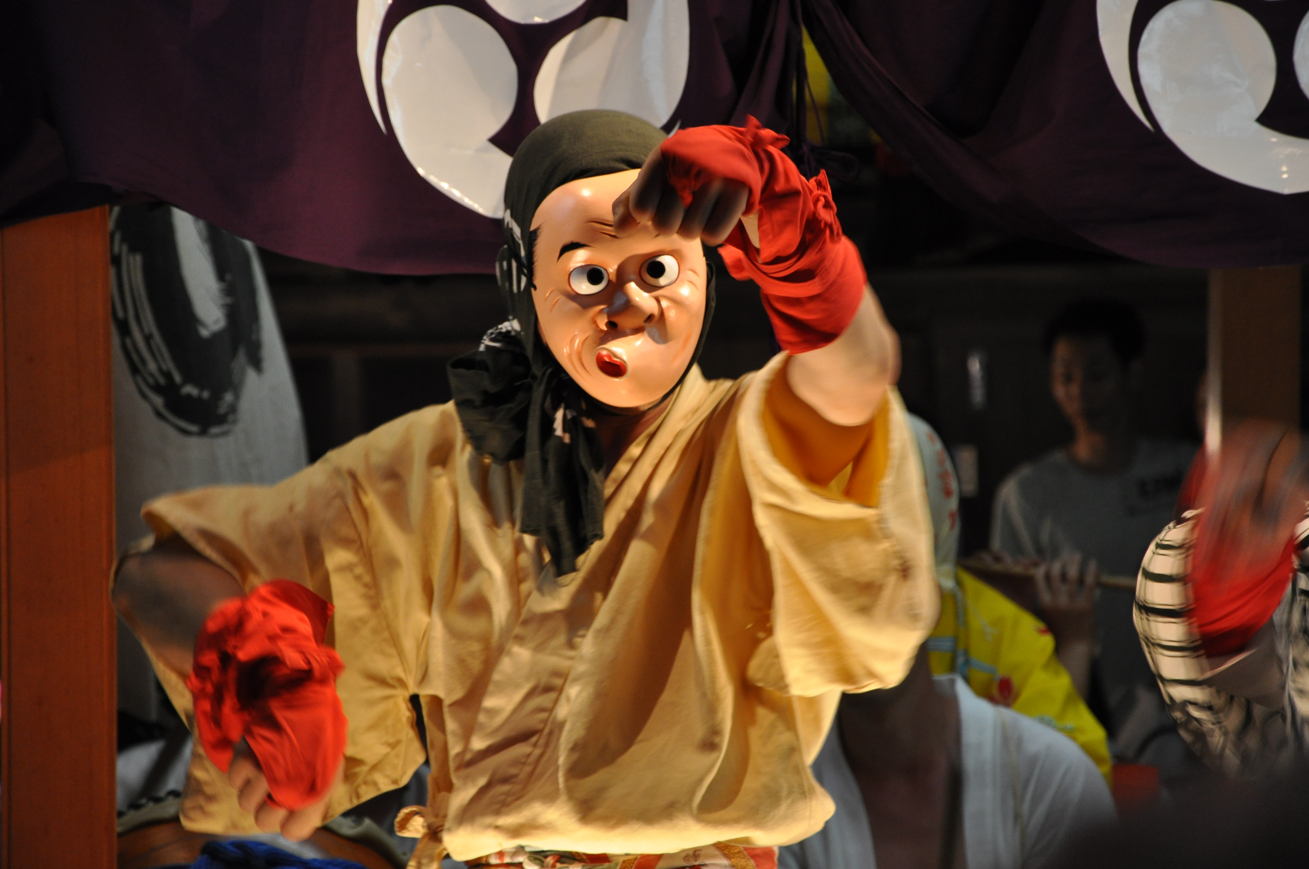 Man with hyottoko mask dances at the Gion festival at the Yasaka Shrine in Moriya City, Ibaraki Prefecture, Japan